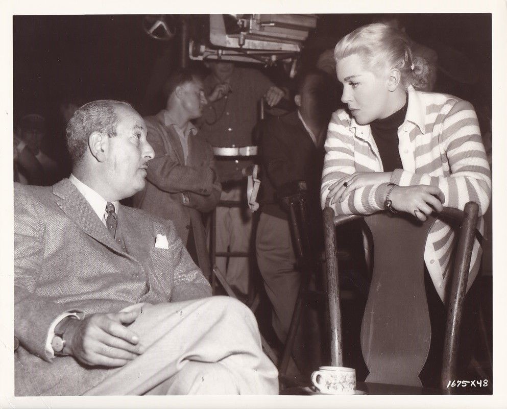 Lana Turner and Edwin Knopf on set of Diane